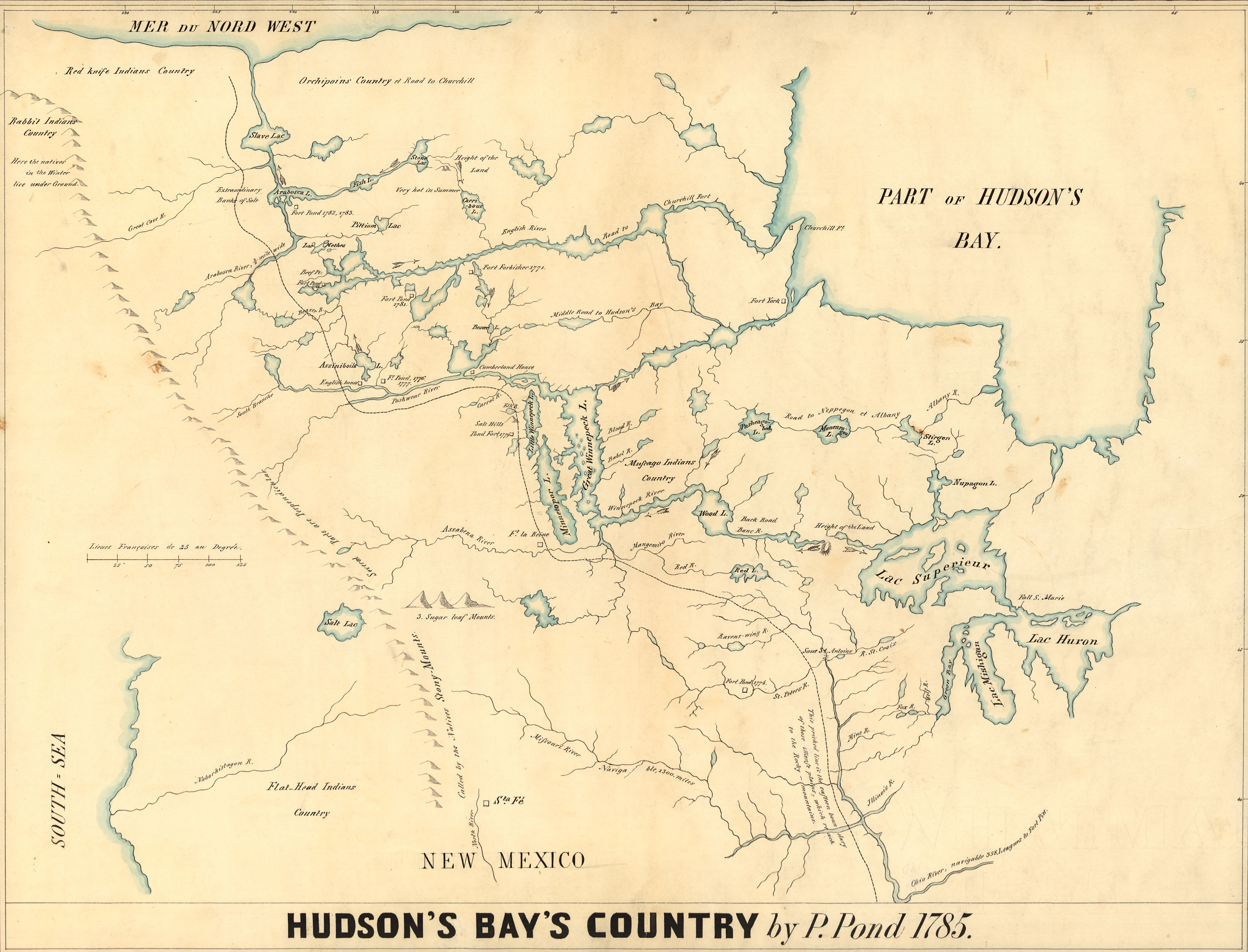 The following is the author's description of the photograph quoted directly from the photograph's Flickr page. "The immense territory to the northwest of the Methye Portage at the watershed between the Churchill and the Athabaska basins was virtually unknown at the date of this map. Very few traders were working in the Mackenzie Basin, but Peter Pond was the most experienced and had been the first across the Portage. Judging from the evidence available he had not been beyond Lake Athabaska by 1784, but from Indian reports he had amassed a considerable understanding of the more northerly regions. On this map he drew the Mackenzie, Churchill, Saskatchewan, Nelson, and Albany systems, the Manitoba Lakes and the Border Lakes, and showed their interconnections. No previous map, nor any in the next decade, outlines the general hydrographic pattern of western Canada as did this one. Hudson and James Bays are misproportioned, as are the Great Lakes but these are unimportant aspects, for it was the interior network which Pond was emphasizing. (Warkentin and Ruggles. Historical Atlas of Manitoba. map 42, p. 106) ------------------- Hudson's Bay's country / by P. Pond, 1785. "This is a copy of an interesting manuscript map which is preserved in the Archives of the Hudson's Bay Company in London and which has the following title: 'Copy of a map, presented to the Congress by Peter Pond, a native of Milford in the state of Connecticut ...'" Pen-and-ink and watercolor. Scale [ca. 1:7,000,000] Image Source: Library of Congress American Memory Project "